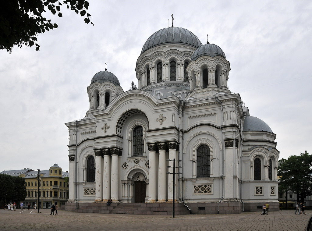 This house of worship was built between 1891-1893. It was meant for the Kaunas stronghold soldiers, as a representational building for the Kaunas Army Fortress, expressing luxury and officialdom. The Kaunas residents call it Soboras (Russian Orthodox Cathedral). When Sovjet ideology became active, from 1962 right up to the 1990’s, it belonged to a gallery of the art museum. After the occupation the Sobor was appointed to the Lithuanian Army’s Kaunas garrison’s use and a parish was established.